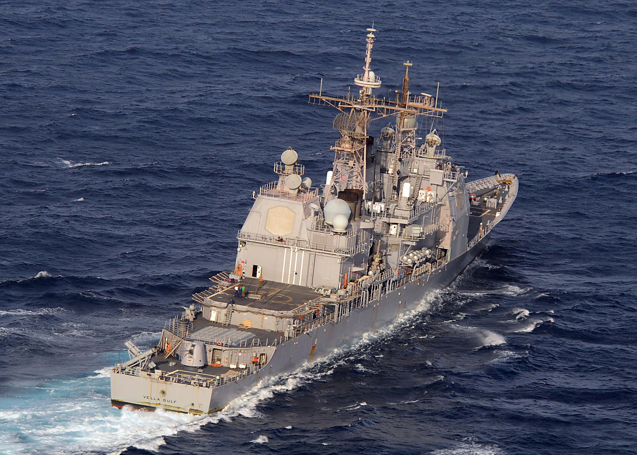 081207-N-1082Z-036 INDIAN OCEAN (Dec. 7, 2008) The guided-missile cruiser USS Vella Gulf (CG 72) conducts high-speed turns during a torpedo evasion exercise. Vella Gulf is deployed as part of the Iwo Jima Expeditionary Strike Group supporting maritime security operations in the U.S. 5th Fleet area of responsibility. (U.S. Navy photo by Mass Communication Specialist 2nd Class Jason R. Zalasky/Released)